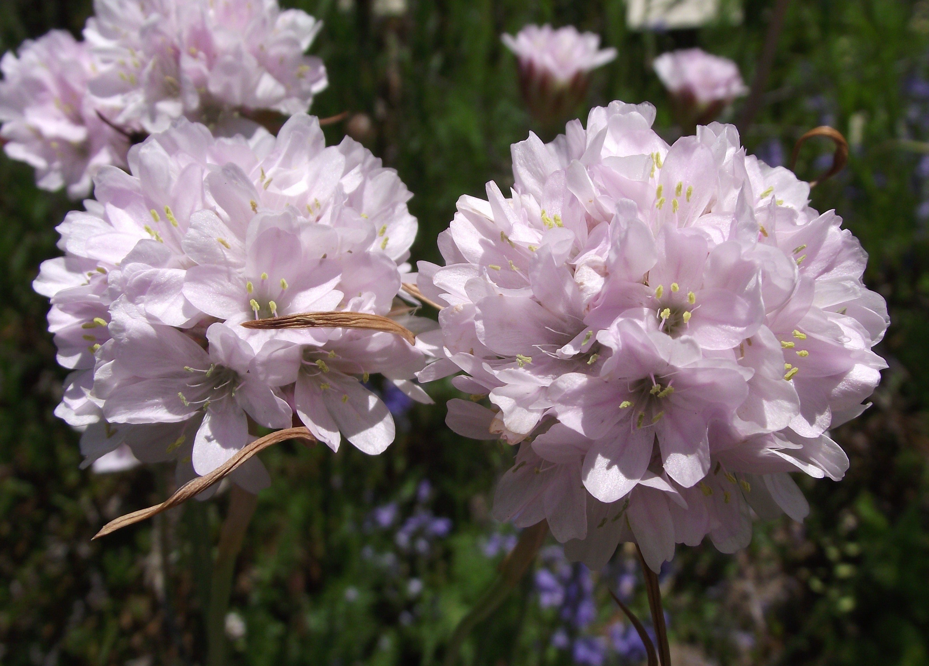 Armeria denticulata in the UC Botanical Garden, Berkeley, California, USA. Identified by sign.